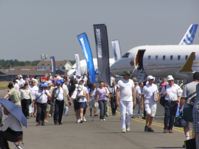 Farnborough Air Show 2006 Photograph by Self